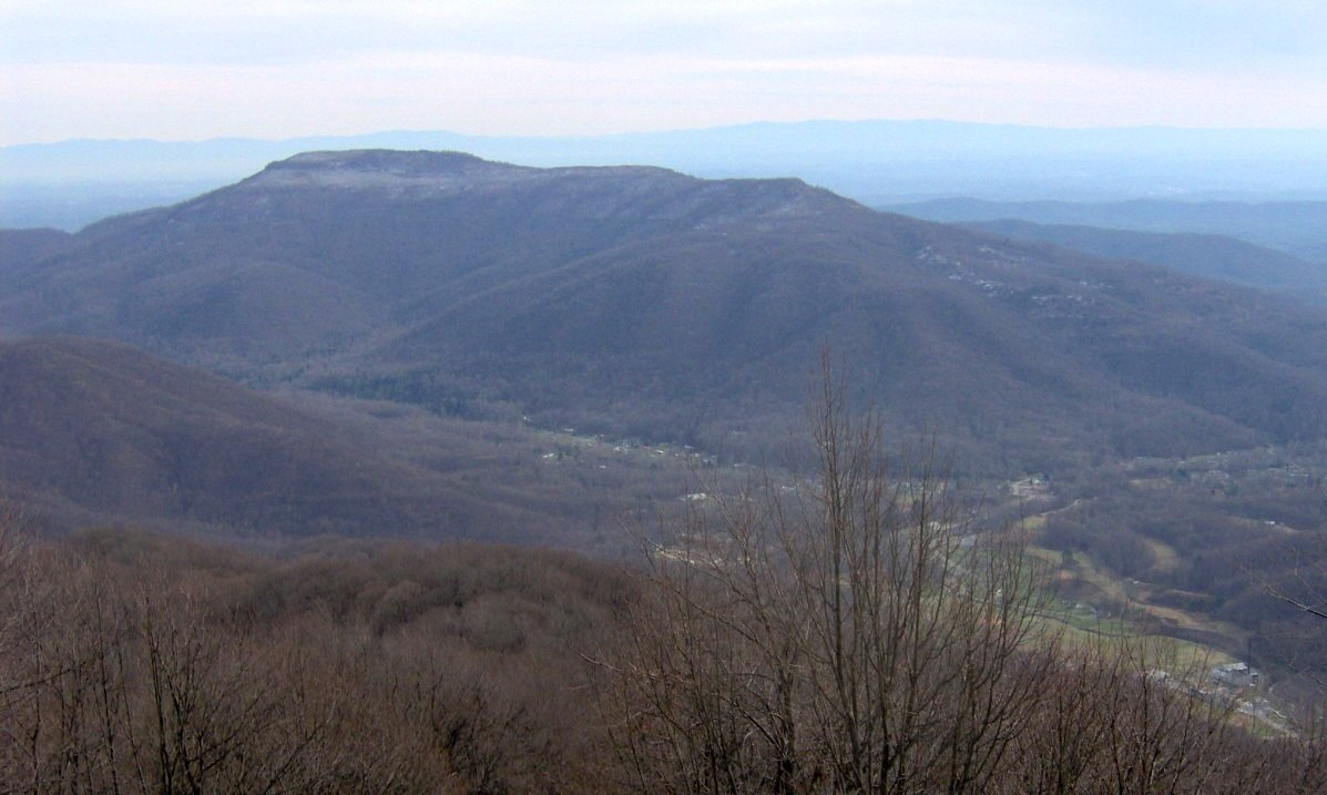 Big Brushy Mountain with the community of Petros at its base, looking east from the observation platform atop Frozen Head at Frozen Head State Park in the Cumberland Mountains of Tennessee, USA. The Great Smoky Mountains span the horizon.